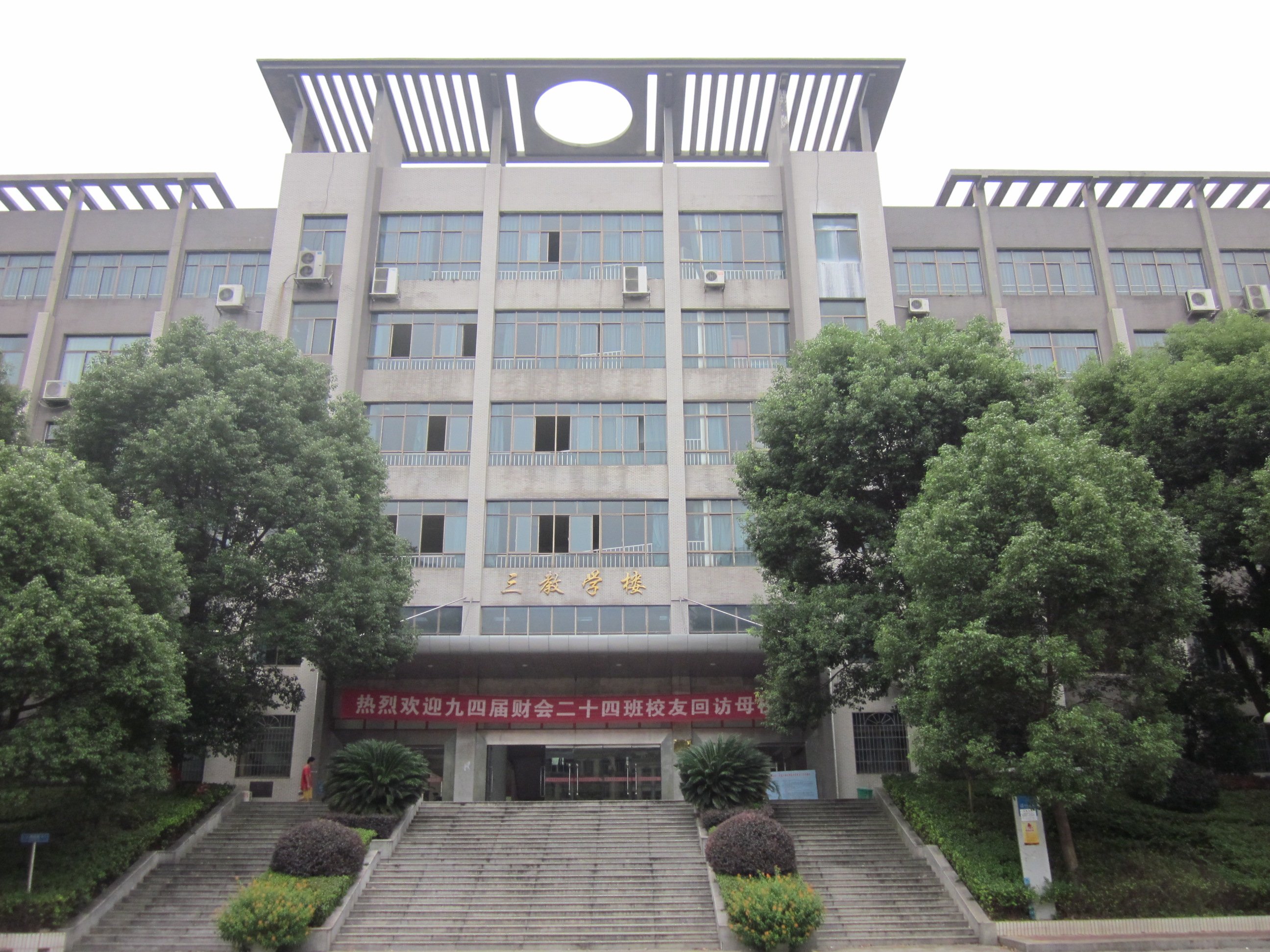 Hunan University of Commerce，or HUC (Chinese: 湖南商学院; pinyin: Húnán Shāng Xuéyuàn)，is a government-sponsored full-time college,and one of the universities and colleges specially supported by the overall economic and social development program of Hunan province. Located in the Lushan University Park of Changsha.